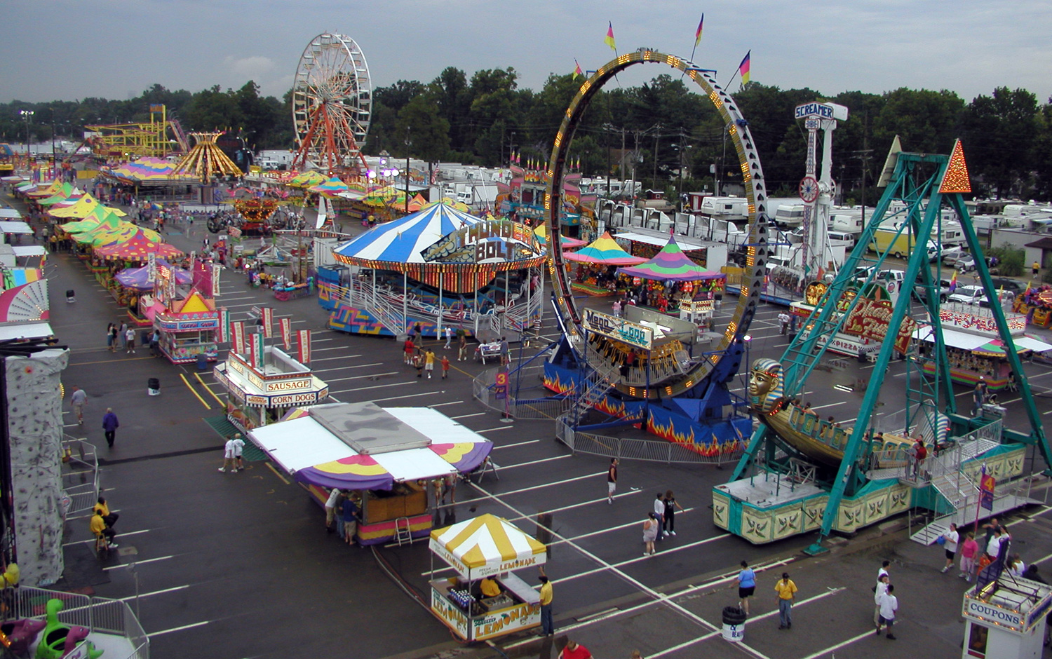 Aerial view of a portion of the midway at the Indiana State Fair. Photo taken August, 2006 by User:Durin